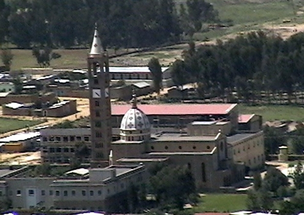 scan of personal photograph